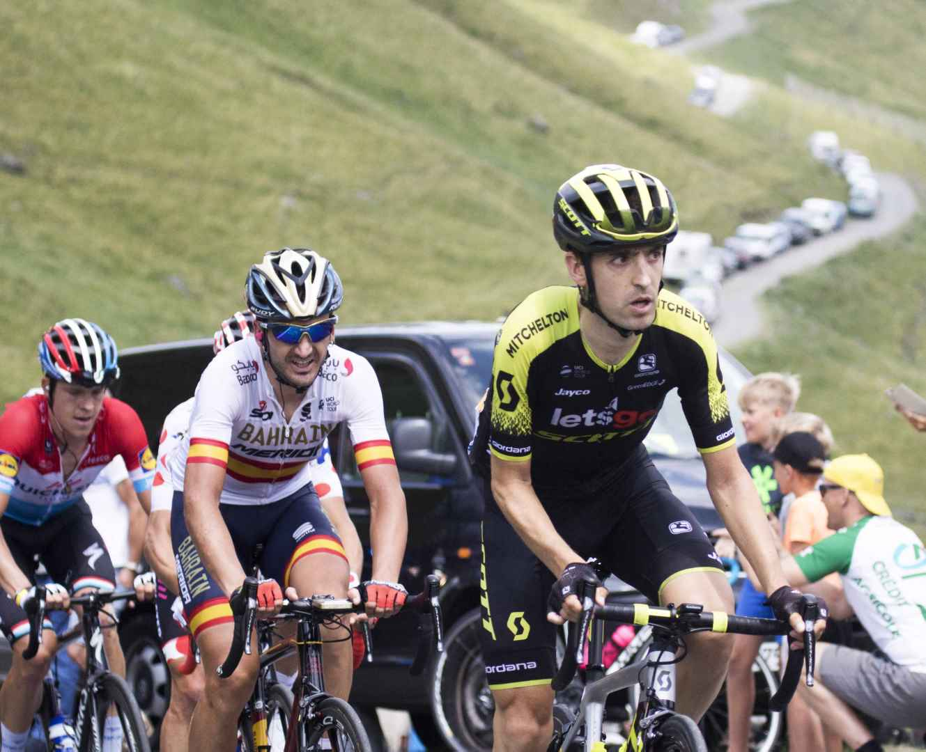 2018 Tour de France